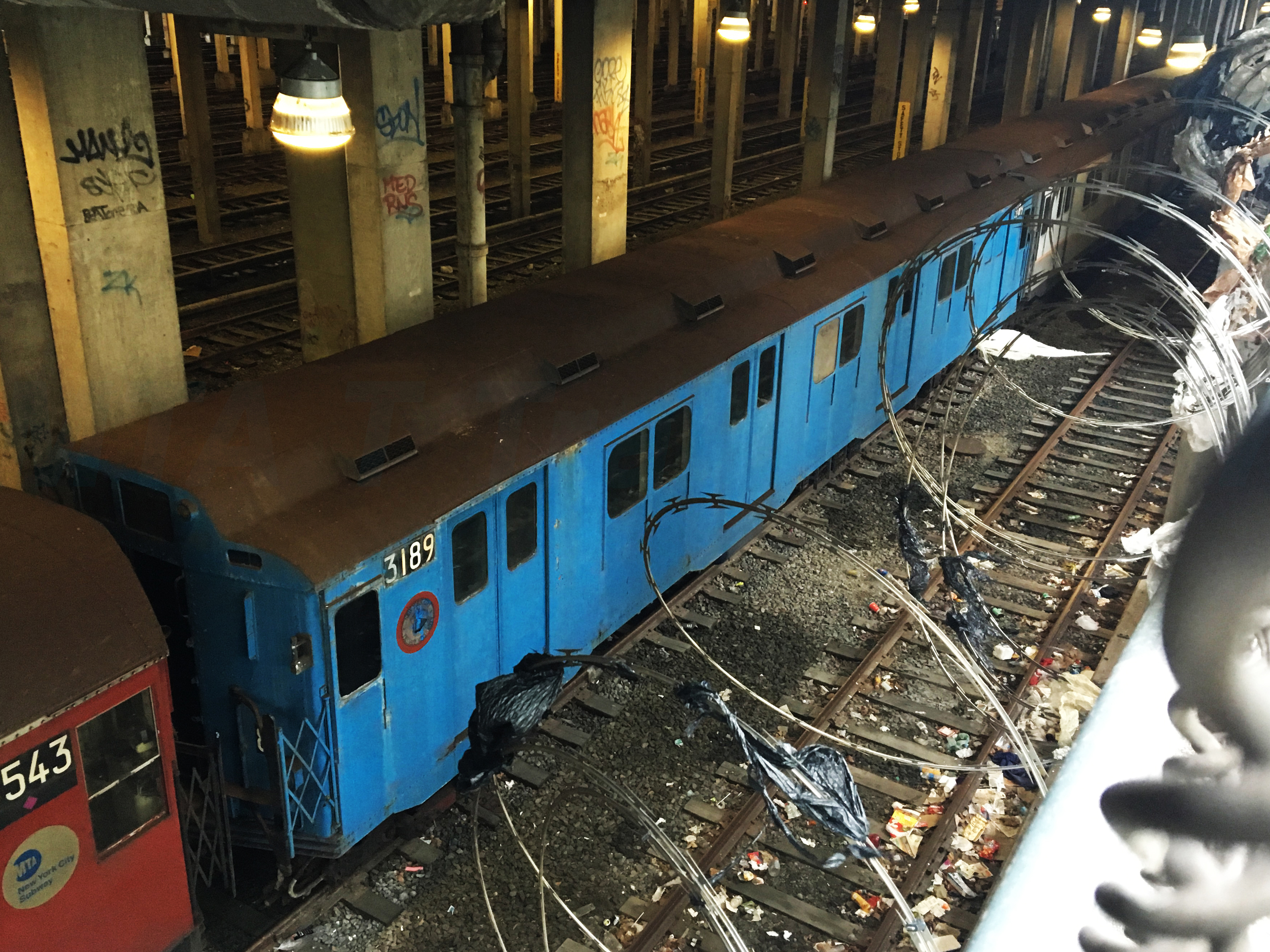 MTA NYC Subway ACF R10 3189 at the Pitkin Yard.